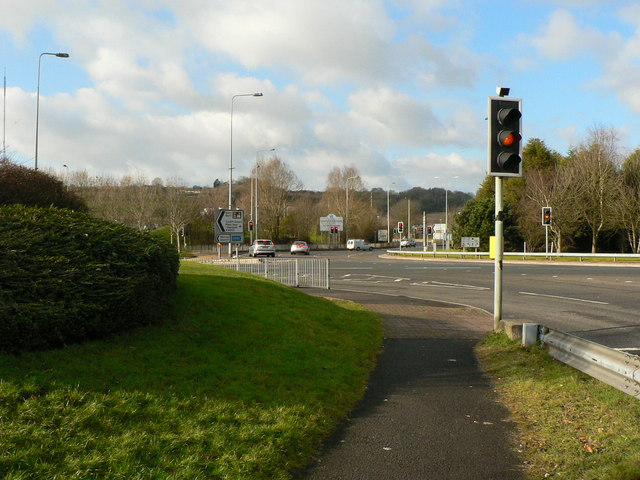 Culverhouse Cross, Cardiff Approaching the roundabout off the A4232 from Cardiff. This is a very busy roundabout giving access to the south and East of Cardiff and to the coastal towns of the Vale of Glamorgan from the M4. Traffic hazards are worsened by the presence of a large shopping area and hotel on the edges of the roundabout.